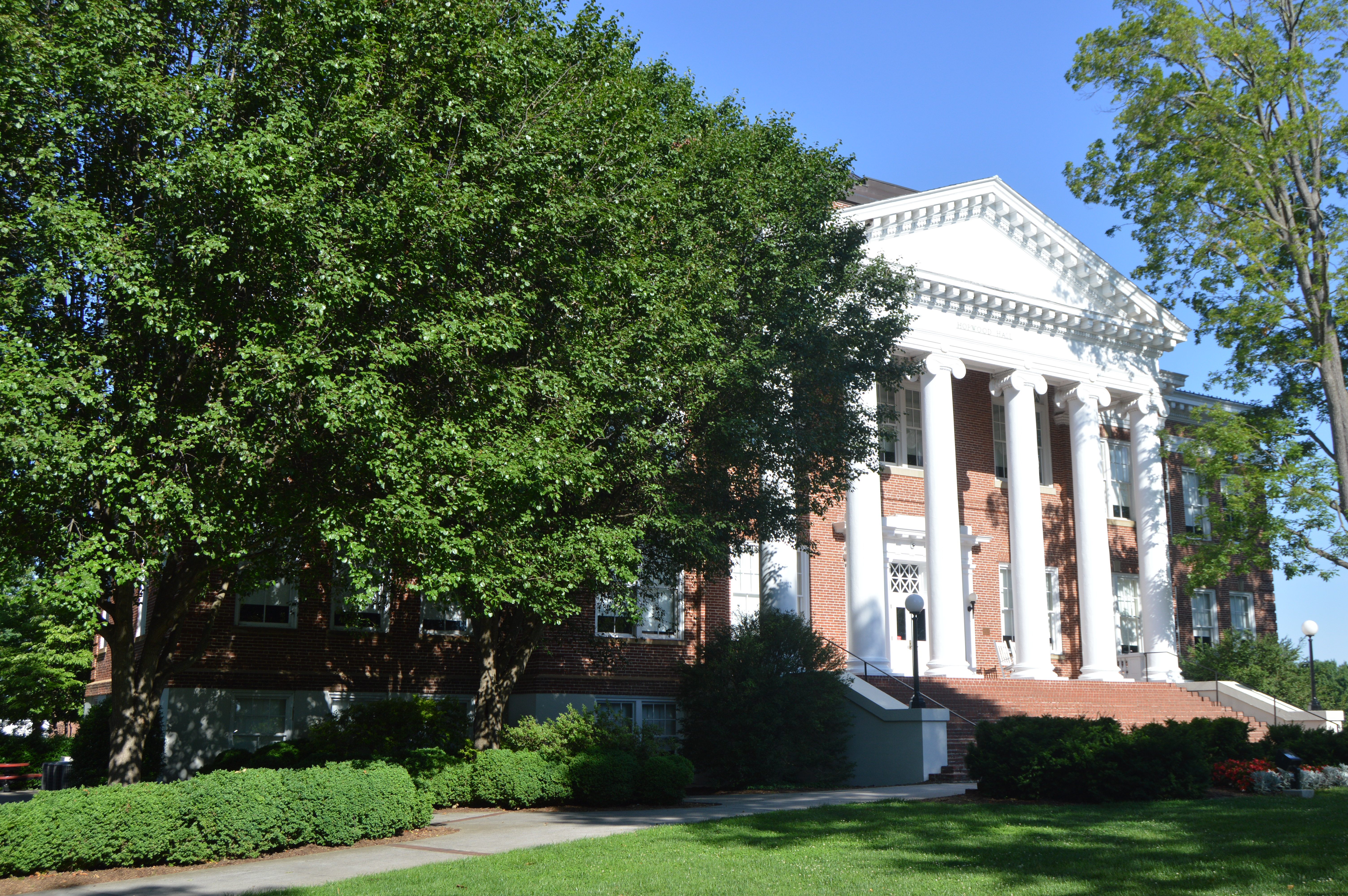 Front of Hopwood Hall on the campus of the University of Lynchburg in Lynchburg, Virginia, United States. Built in 1909 and the oldest building on campus, it is listed on the National Register of Historic Places.